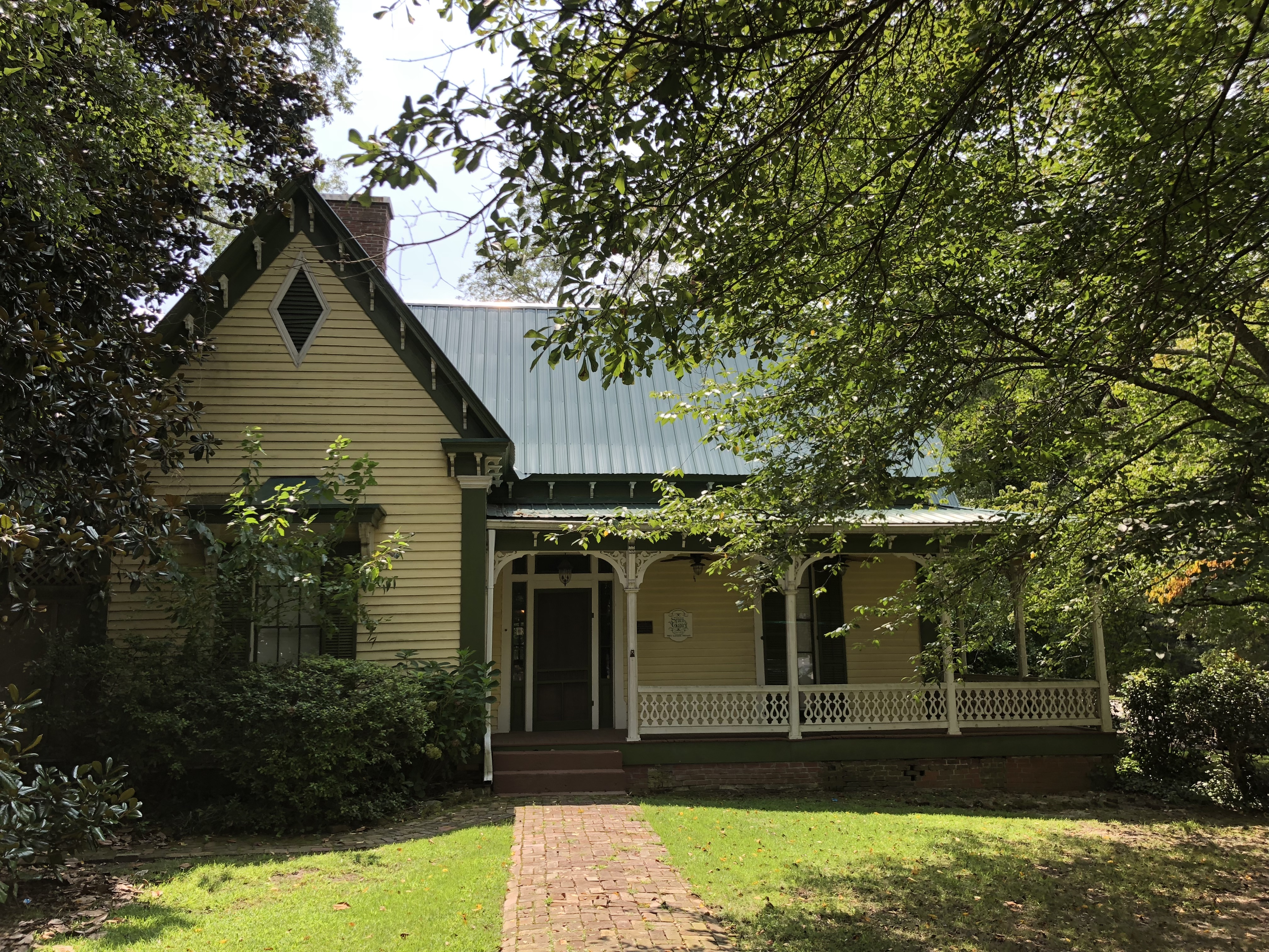 Almand-O'Kelley-Walker House at 981 Green St., Conyers, Georgia was listed on the National Register of Historic Places in 1998. This is the front porch seen from Green Street.